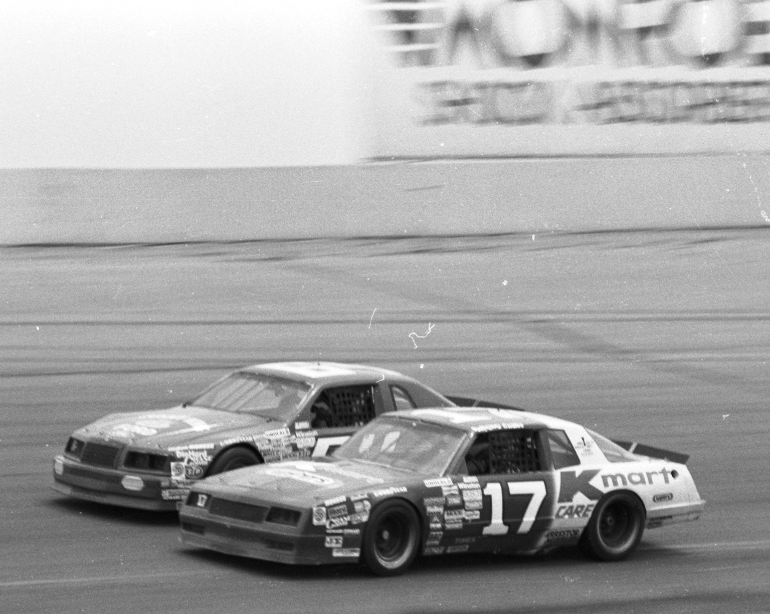 Pancho Carter drives the No. 17 K-Mart/Wynn's Oil Chevrolet for Hamby Racing inside Eddie Bierschwale's No.64 Sunny King Ford-Honda Ford in the NASCAR Winston Cup Series Miller High Life 500 at Pocono Raceway, June 8, 1986